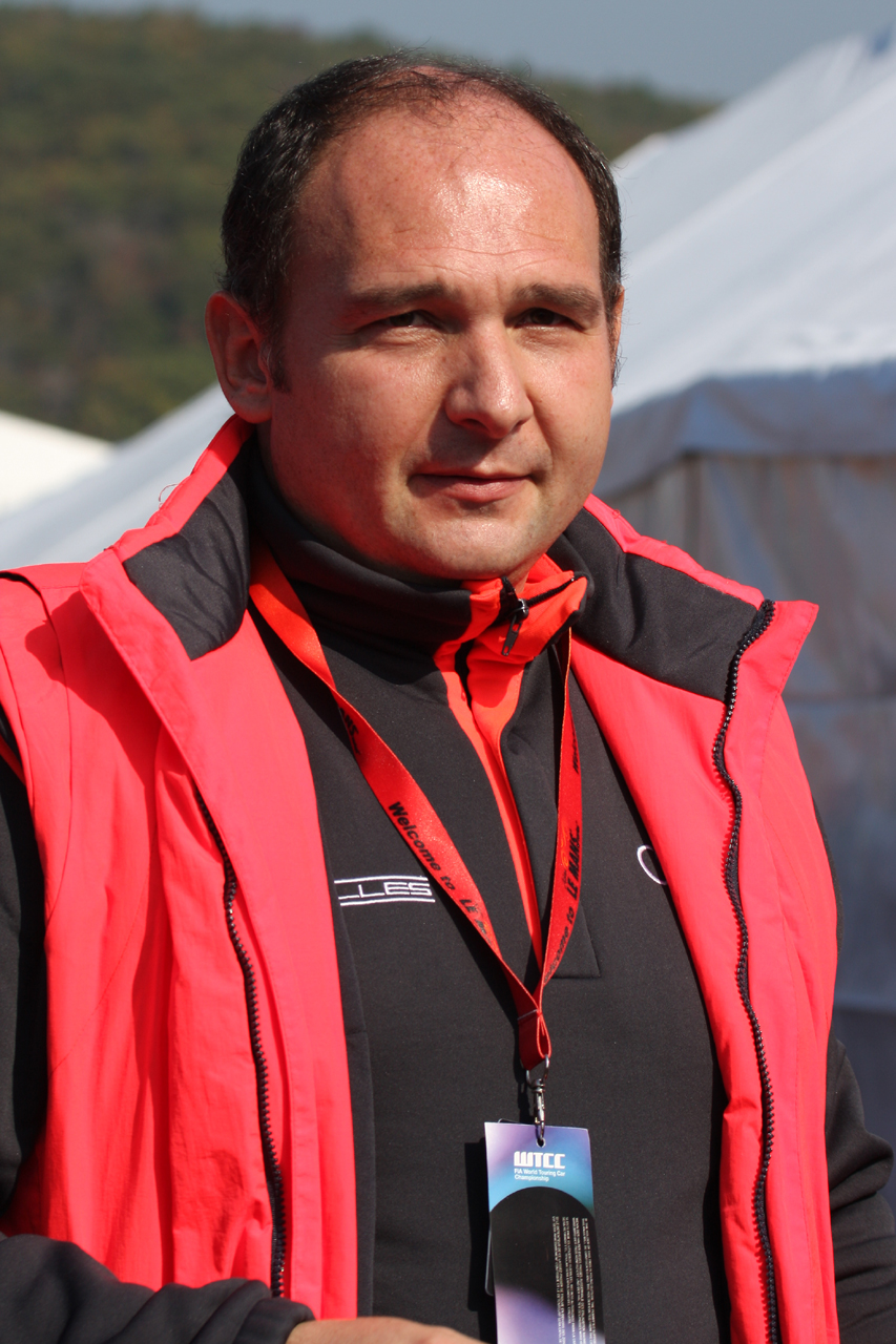 Asian Le Mans Series 2009 1000km of Okayama: Colin Kolles as the owner/Team Principal of Kolles racing team, an Audi squad.